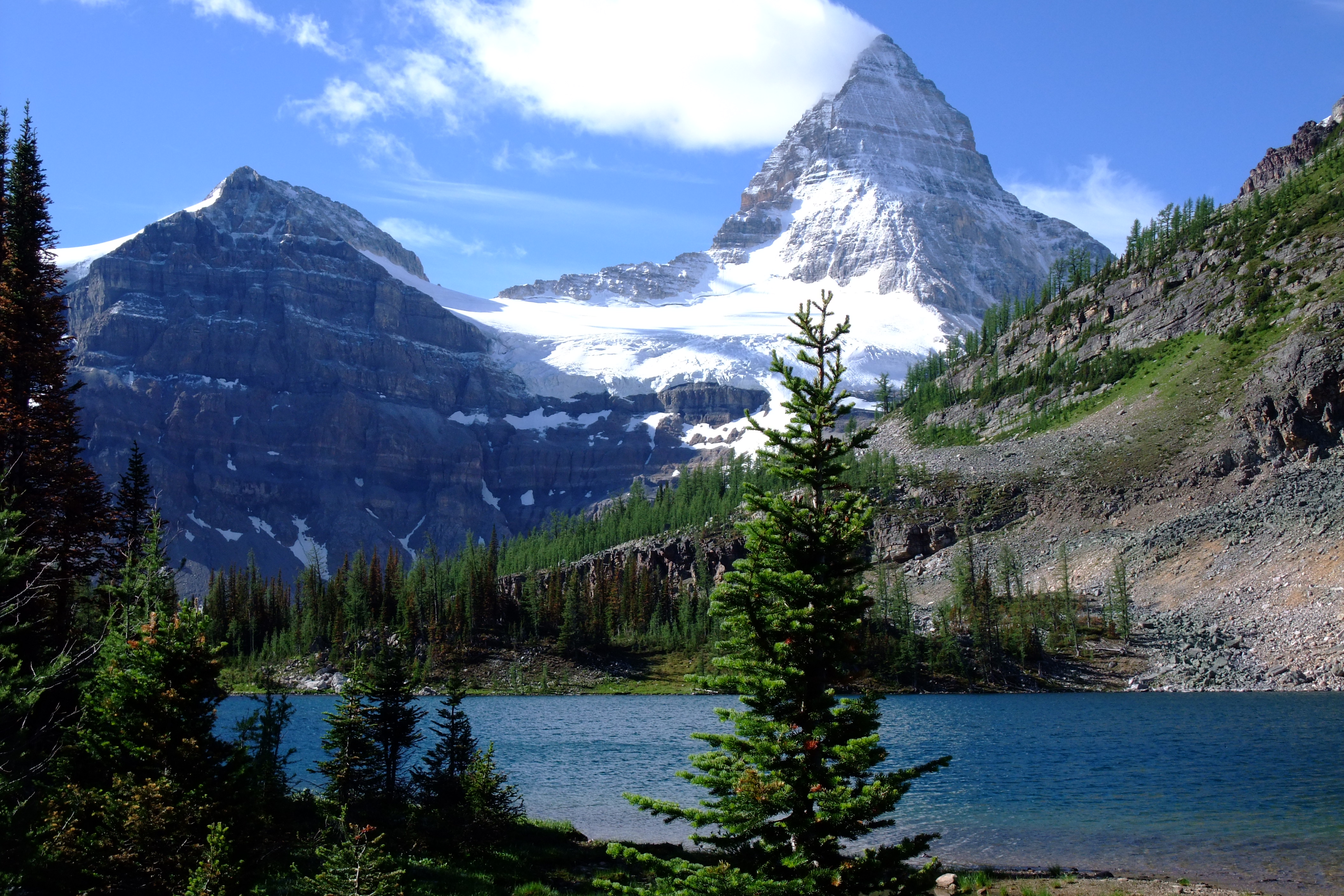 Mount Assiniboine with Sunburst Lake